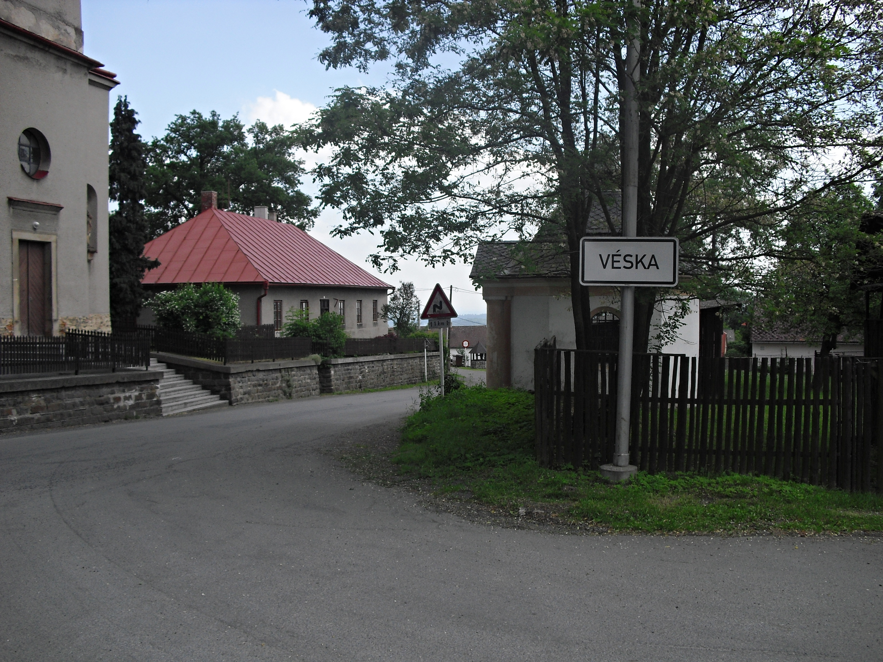 Heřmanice u Oder, Nový Jičín District, Czech Republic, part Véska.